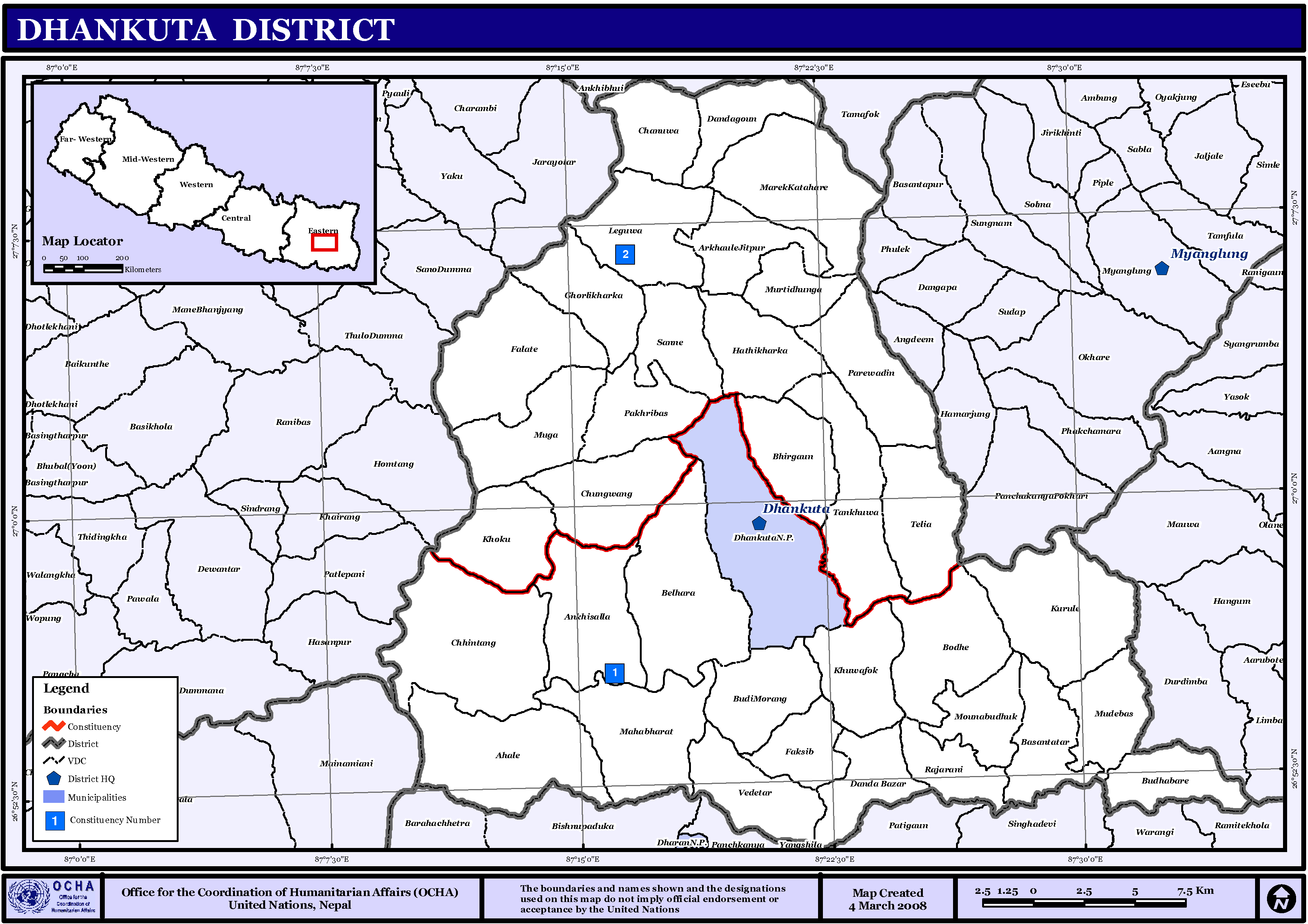 Map displaying Village Development Committees in Dhankuta District, Nepal